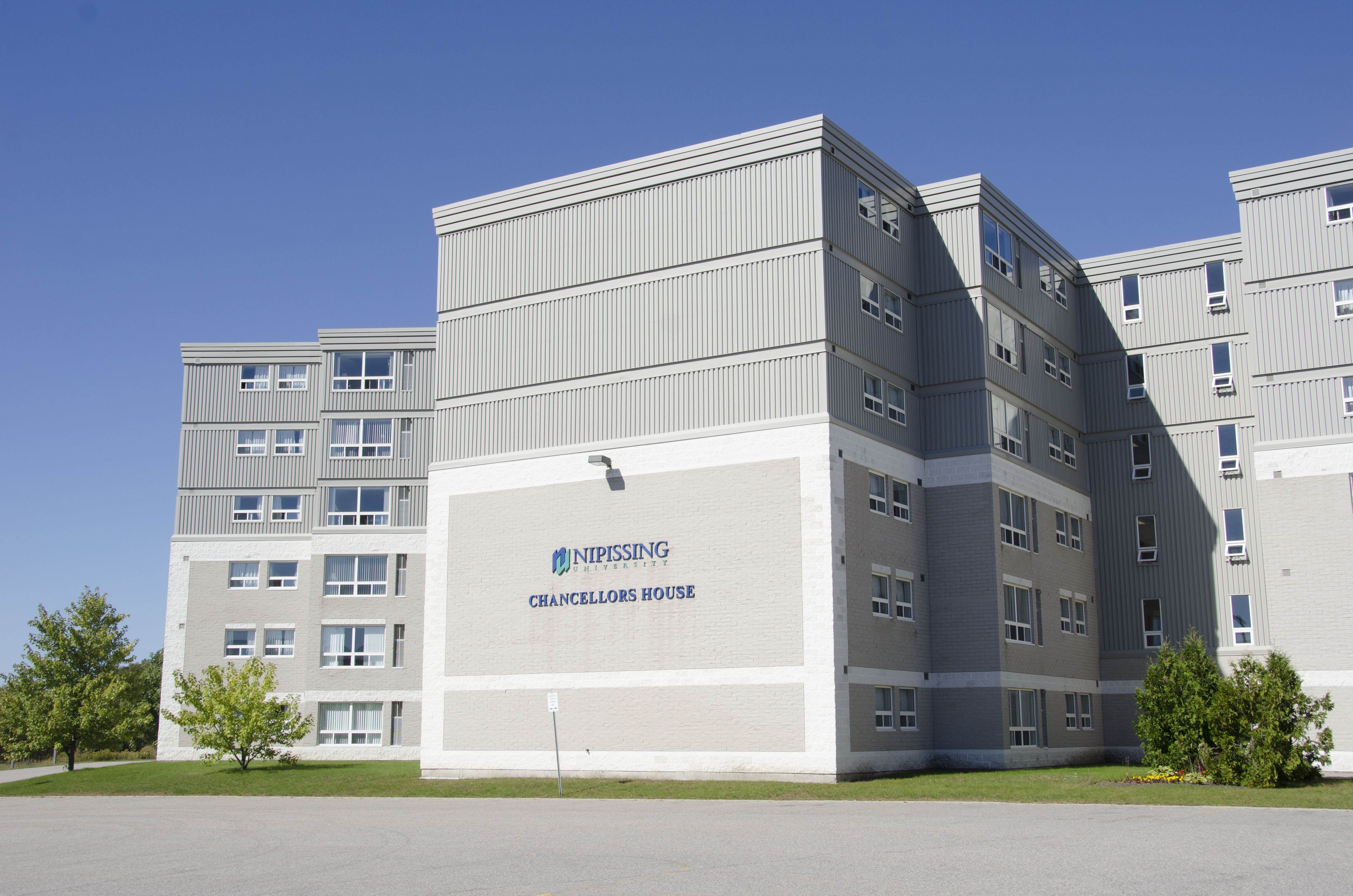 A picture of the front of Chancellors Residence building, one of Nipissing University's residence buildings